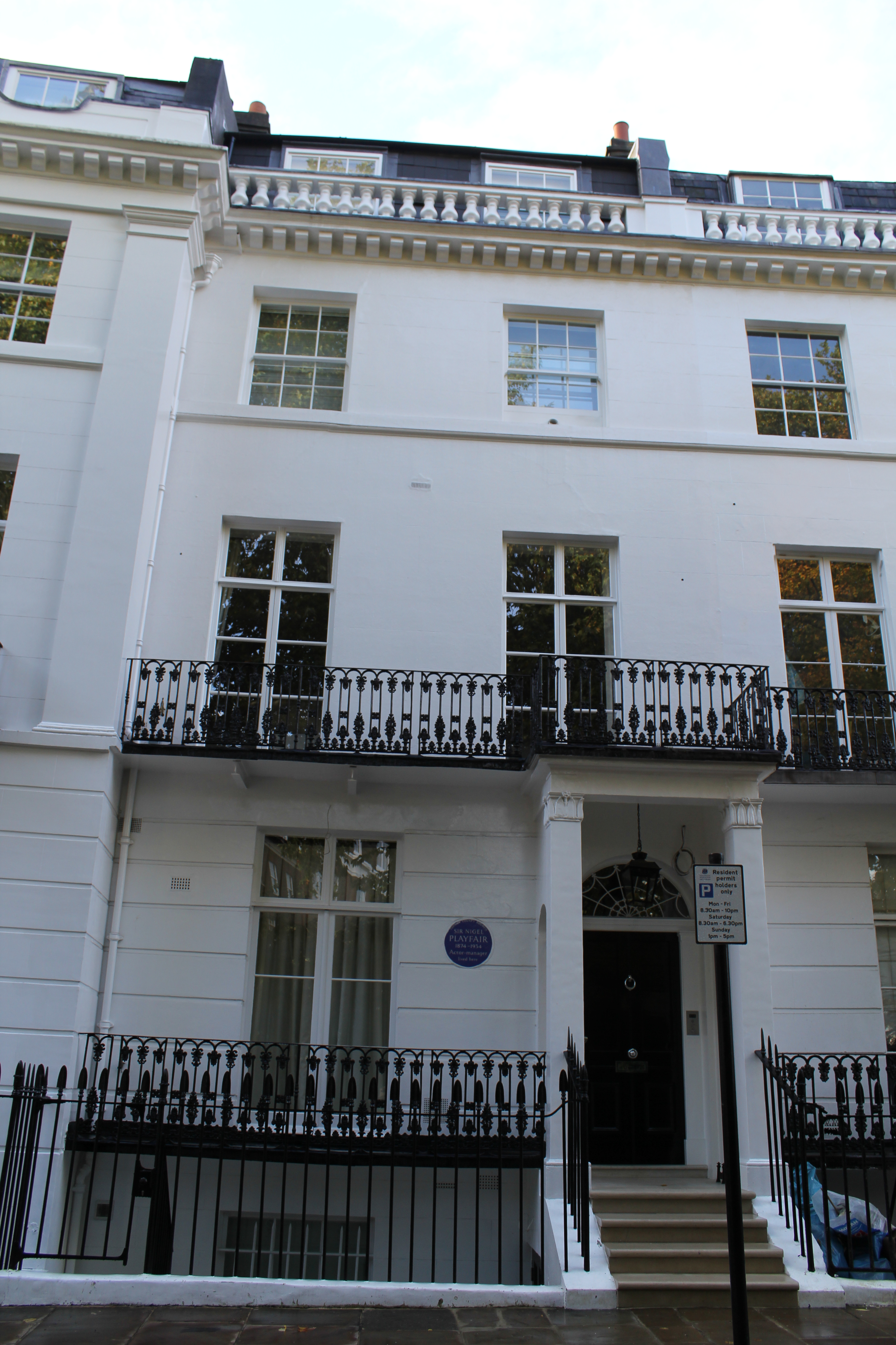 Pelham Crescent, London SW7